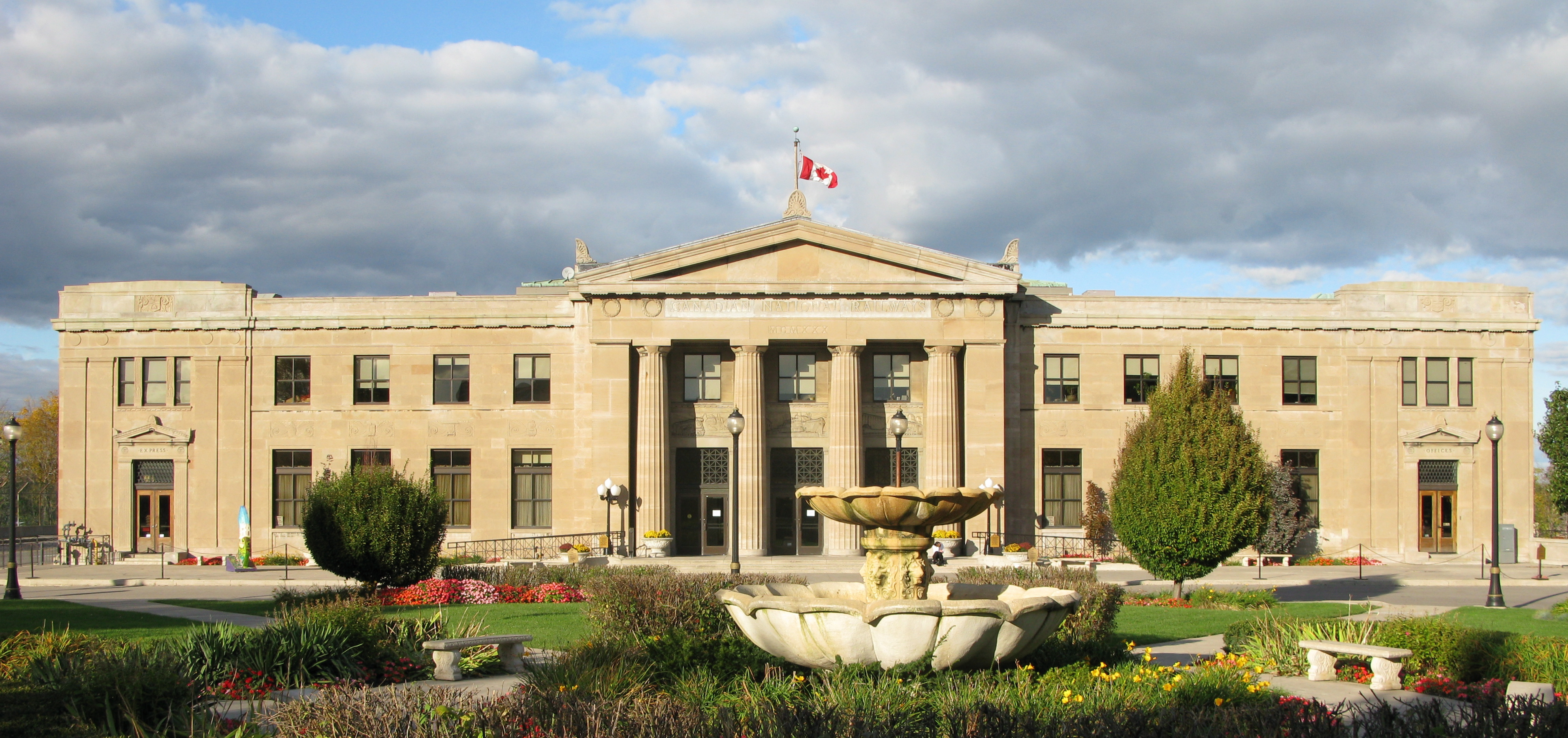 LIUNA Station (former Canadian National Railways Station), 360 James St. N, Hamilton, ON, as seen from Immigration Square